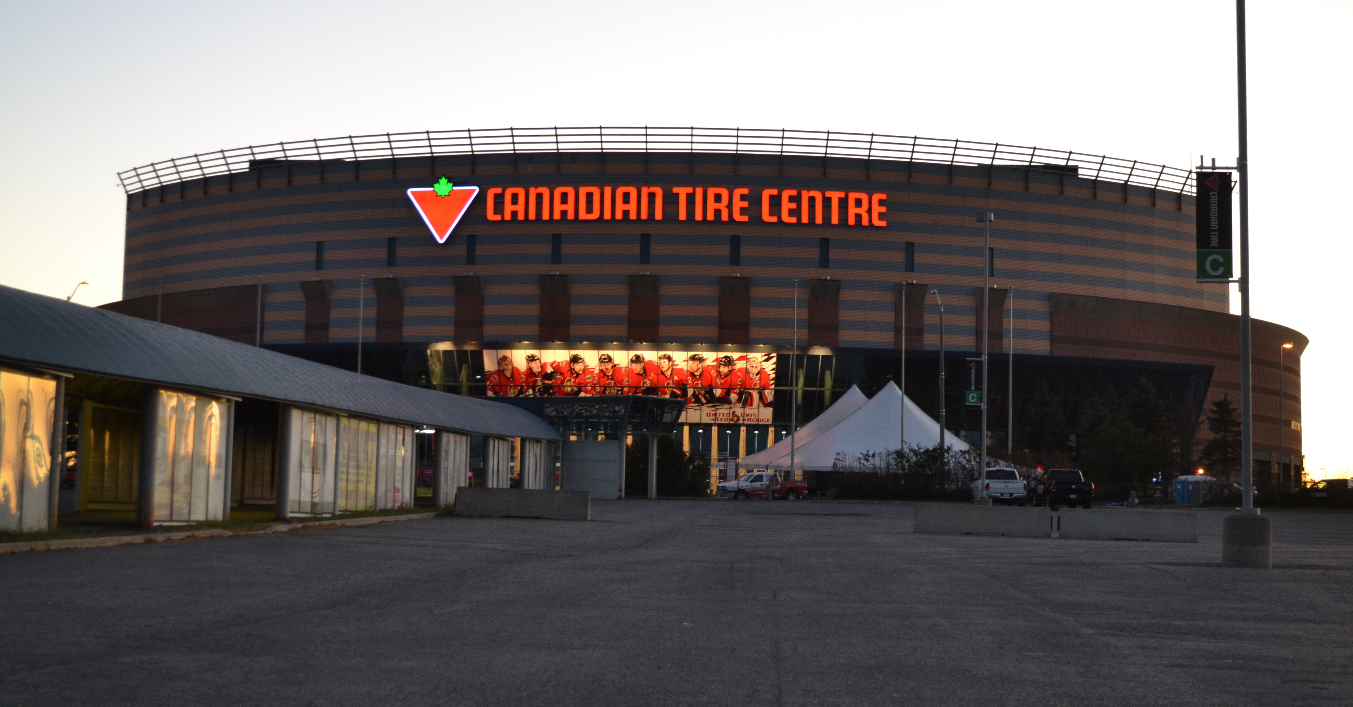 Canadian Tire Centre, September 2014